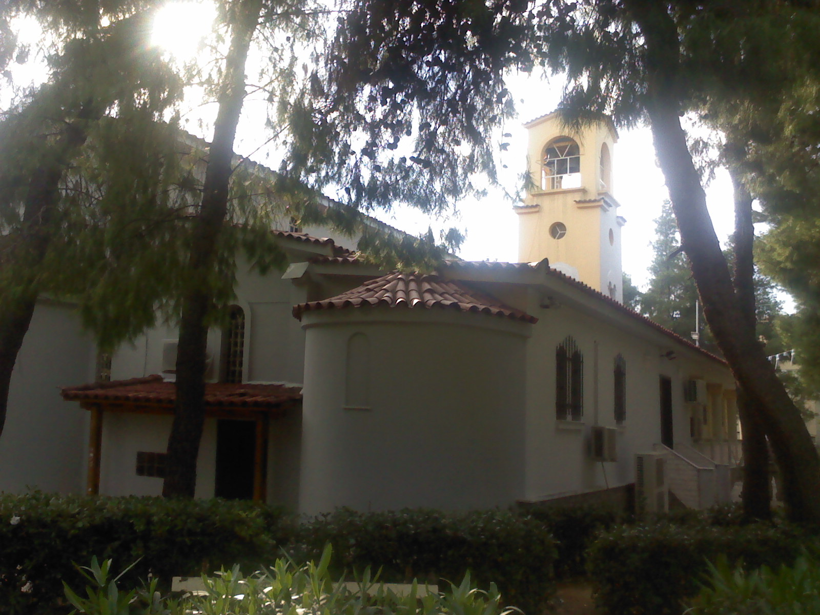 Evangelistria Nea Ionia